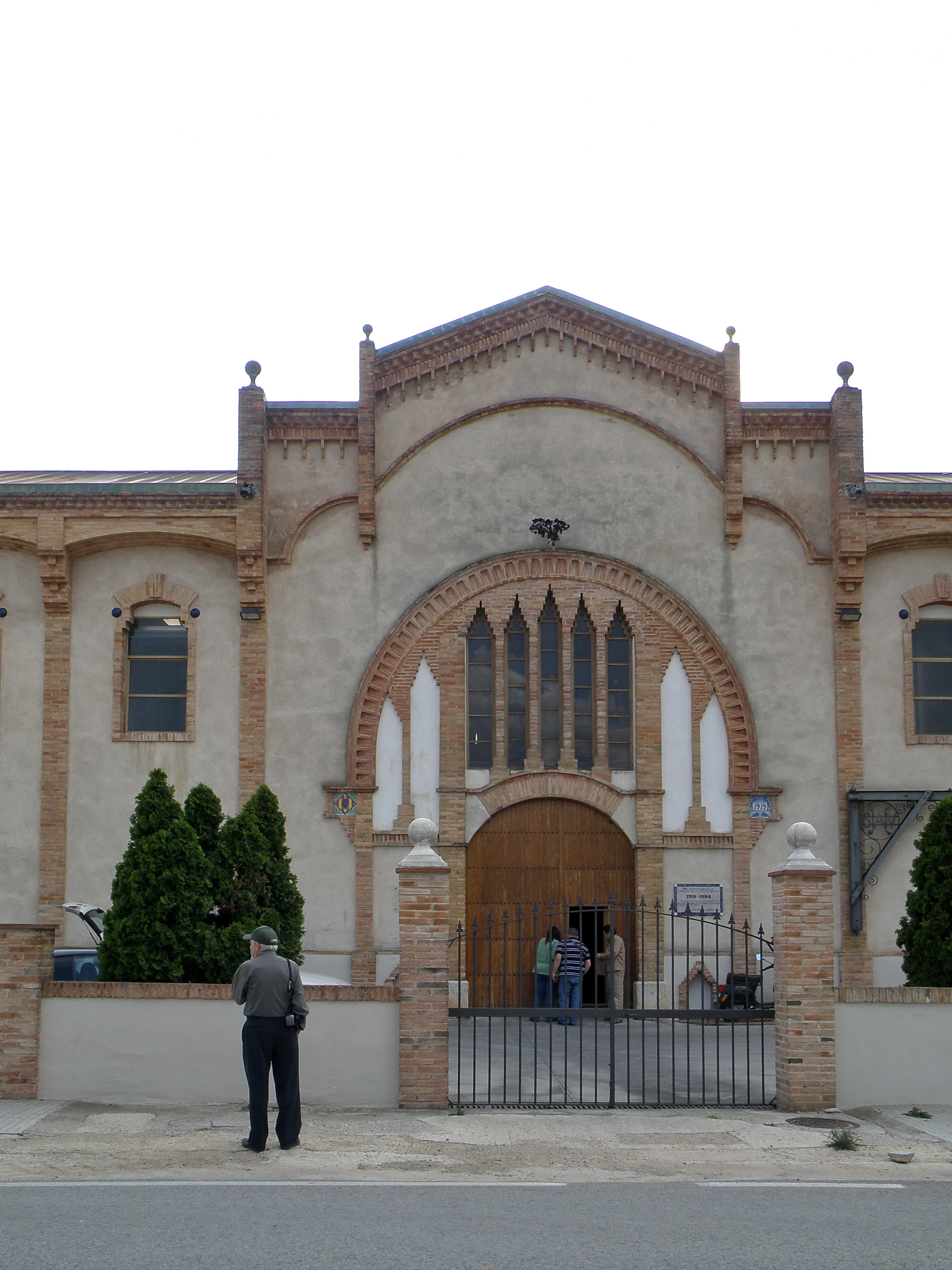 Cooperative wine cellar of Vila-Rodona in the district of Alt Camp